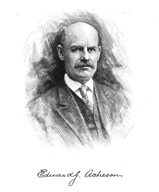 Edward Goodrich Acheson (March 9, 1856 – July 6, 1931)